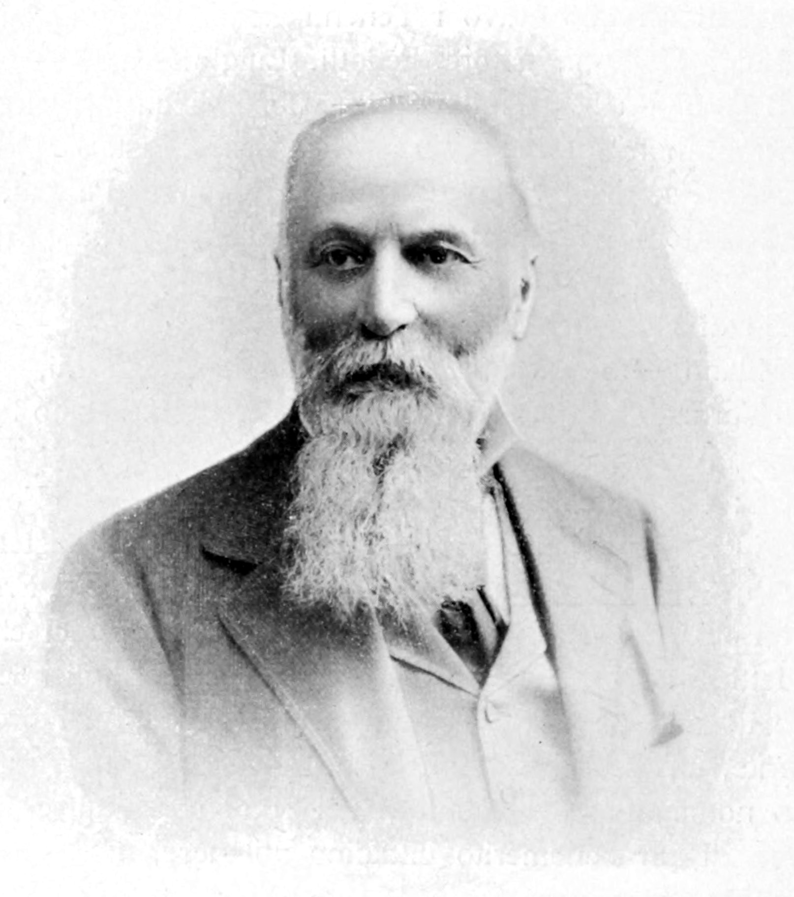 Image from book: Patria Esercito Re, Ulrico Hoepli, Milan, 1908.